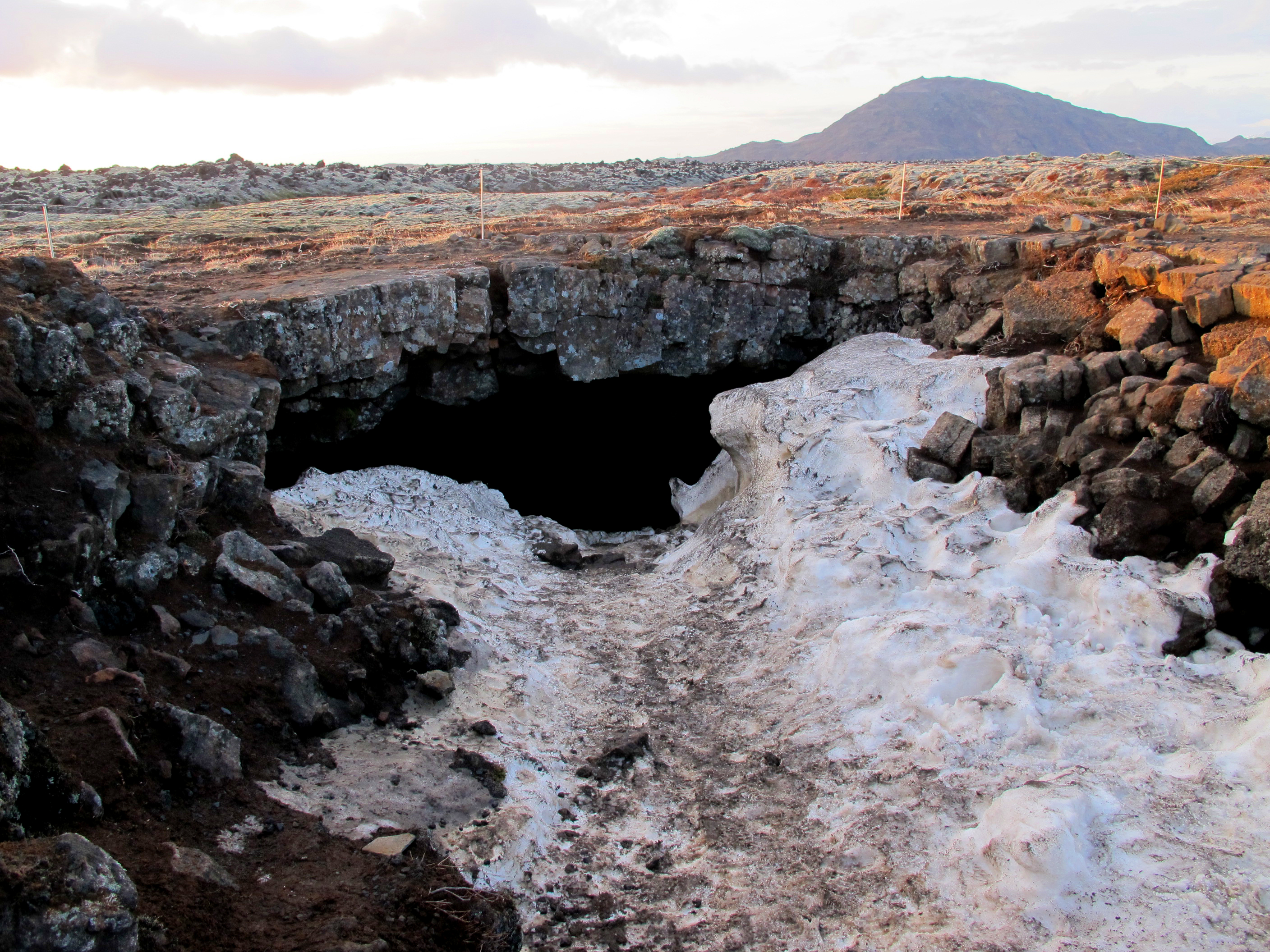 Leiðarendi lava tube in Iceland.